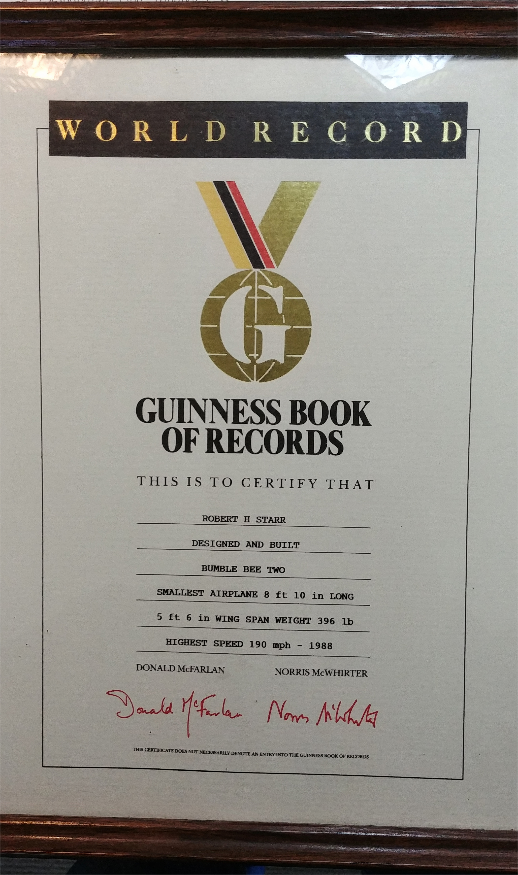 Guiness certification 1988